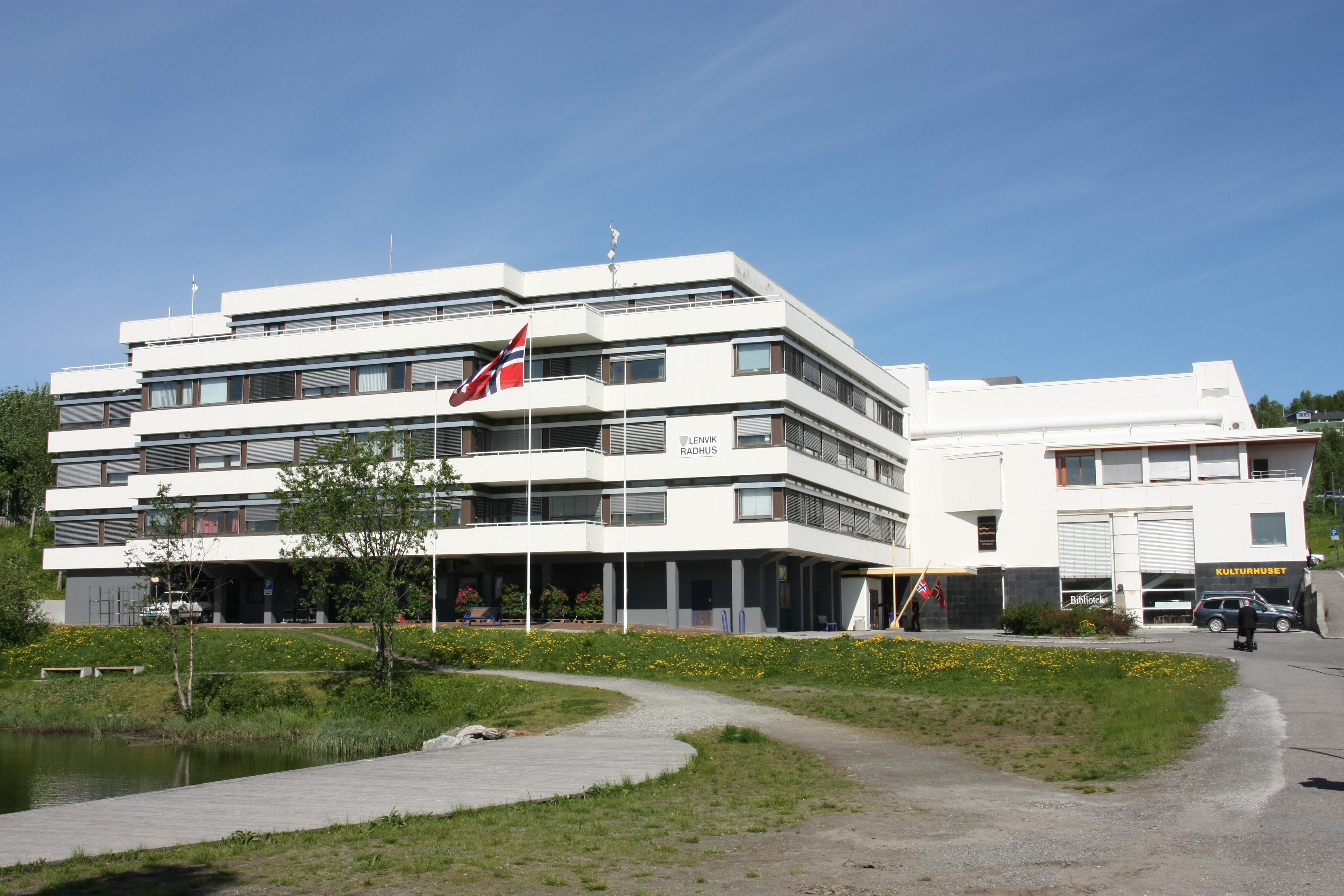 Finnsnes - cultur center with cinema and library, administrative center of Lenvik, province of Troms, Norway. Summer 2011.